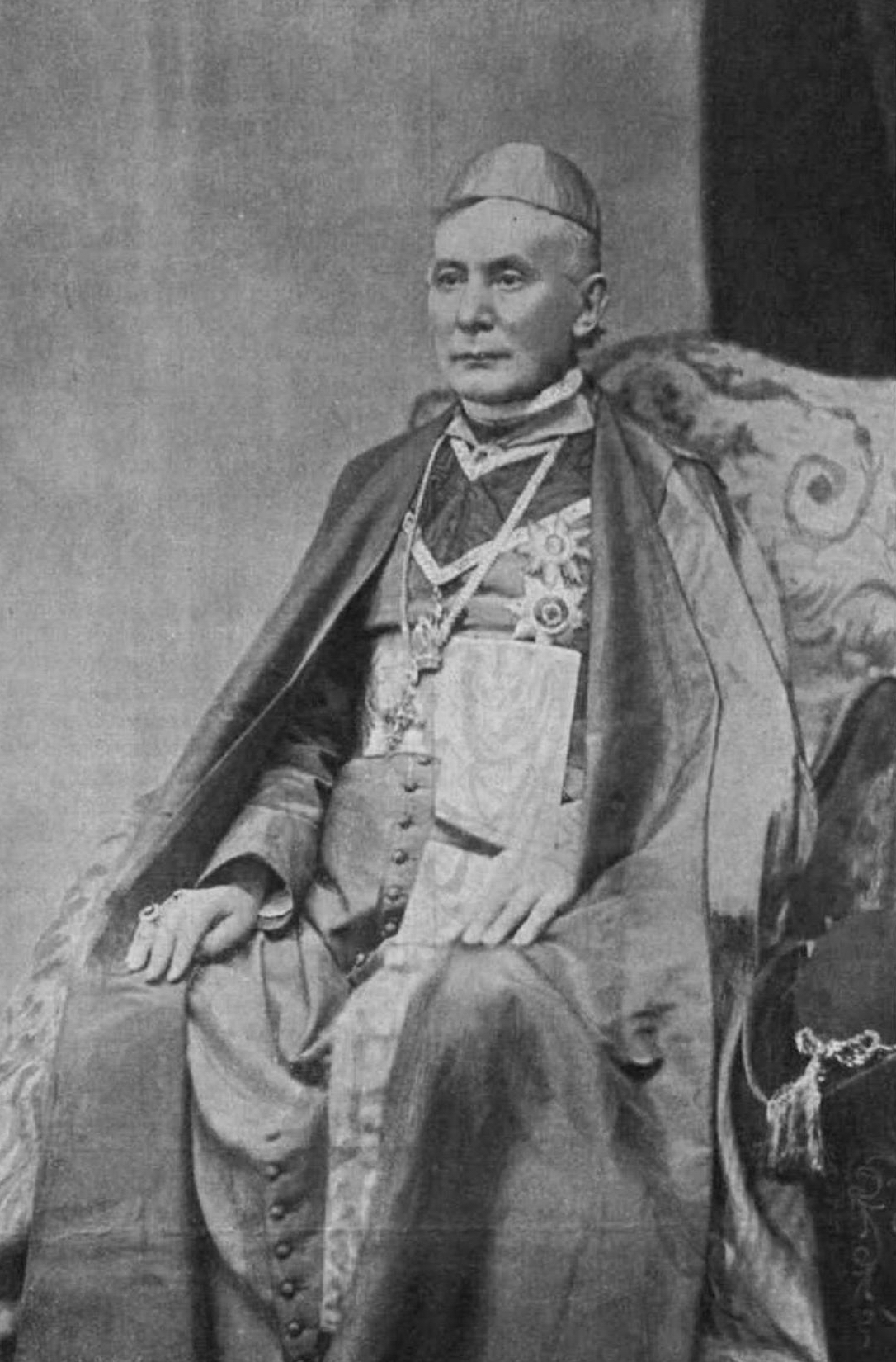 György Császka